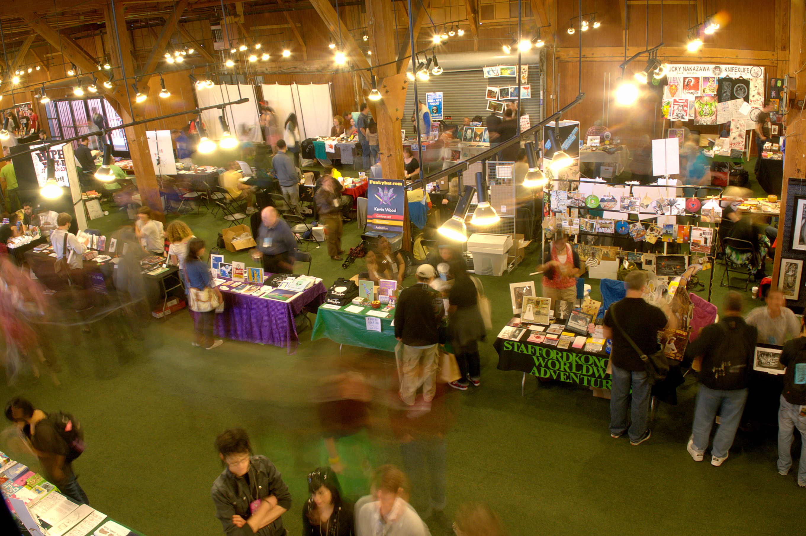 Alternative Press Expo 2010, organized at the Concourse Exhibition Center in San Francisco, California, by Comic-Con International on Oct. 16-17, 2010.